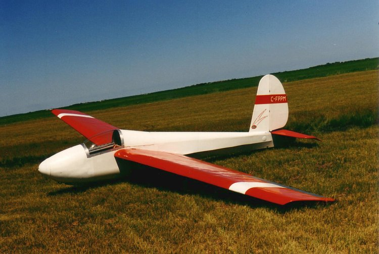 I took this photo of a Schweizer SGS 1-26B sailplane (C-FPPM) at the Starbuck Gliderport in 1990